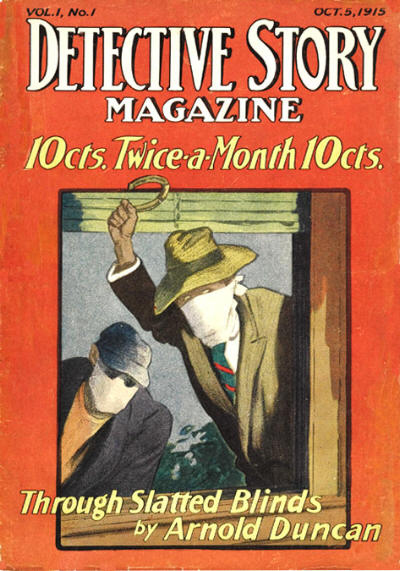 Cover of the first issue of Detective Story Magazine